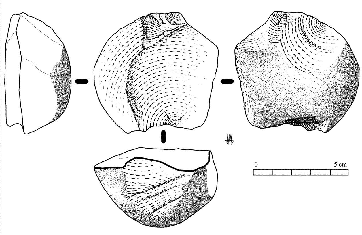 Acheulean Kombewa-core in quartzite that proceeds from a superficial site in the Valladolid province (Spain), in the valley of Douro river.